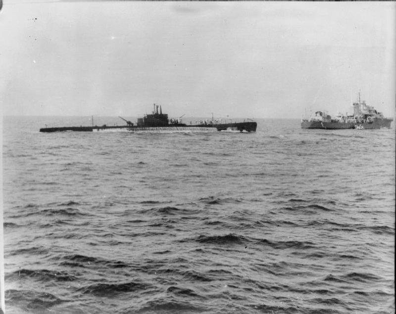 Capture of the Italian submarine Galileo Galilei, Gulf of Aden. in June 1940. The Royal Navy destroyer HMS Kandahar (F28) is visble at right.